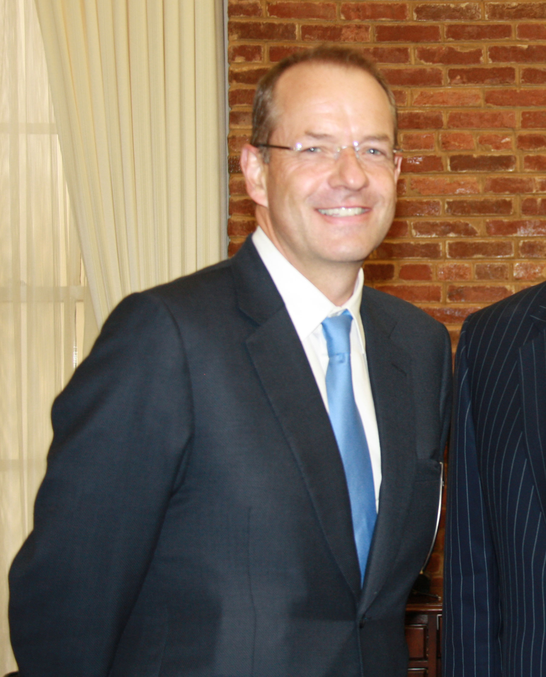 Ambassador Kirk meets with GlaxoSmithKline (GSK) Chief Executive Officer Andrew Witty on September 16, 2010 in Washington, D.C. Crop to just show Andrew Witty